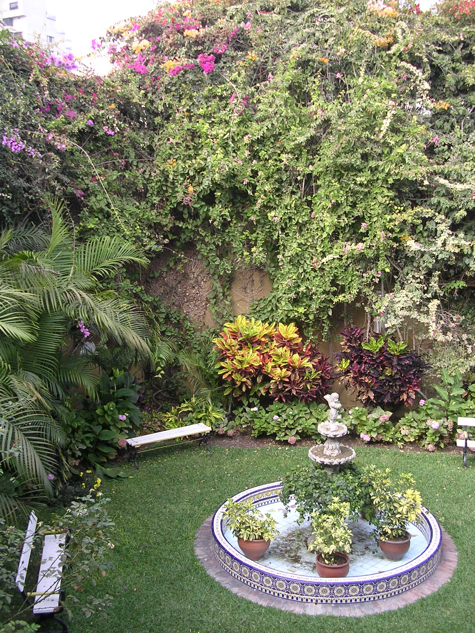 Garden in Lima. Taken from the second floor of the Panamanian Embassy in Peru.